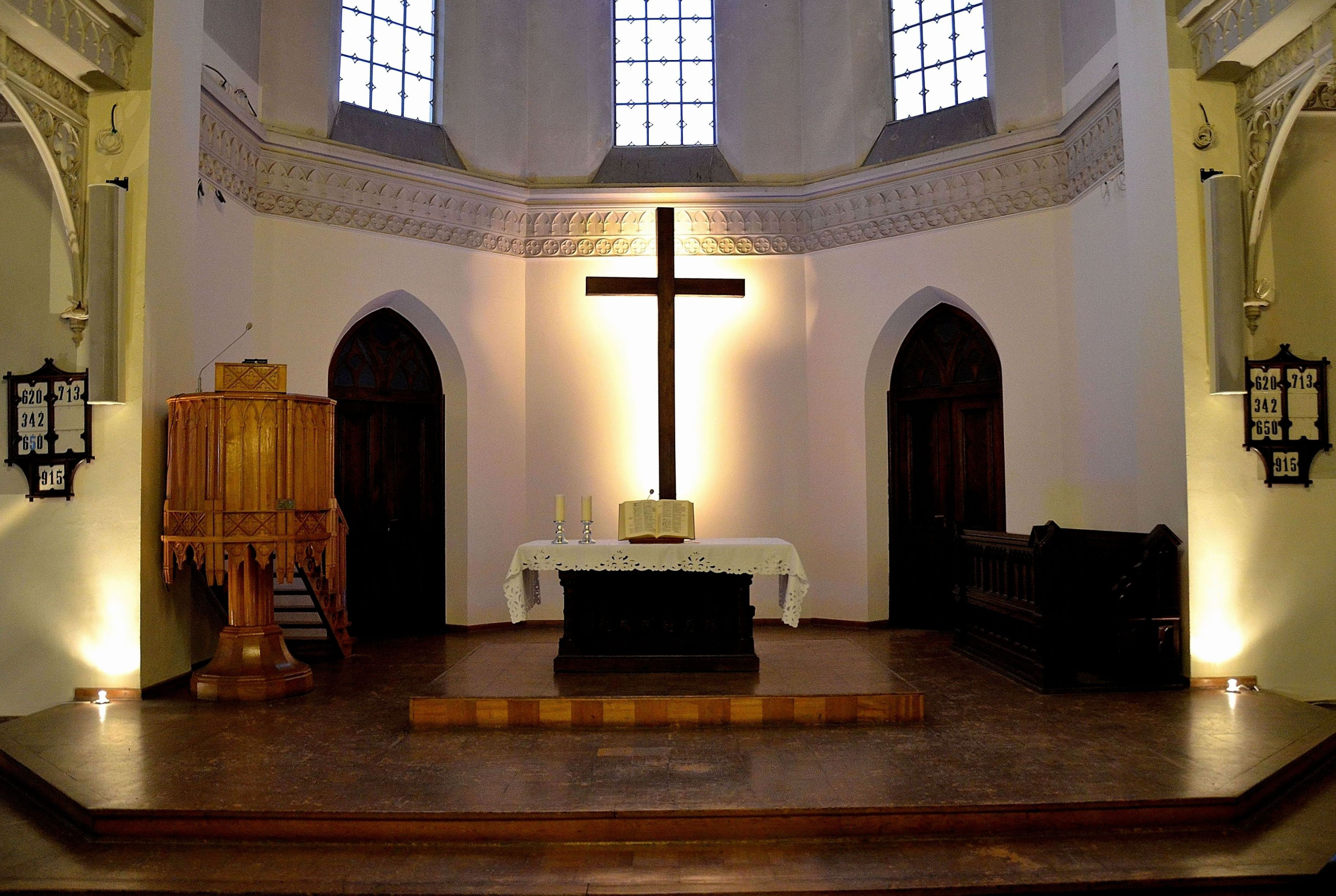 Presbytery of the calvinist church in Warsaw (listed in the Register of Historic Monuments on 1.07.1965, reference no. 743)